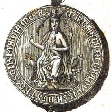 Margaret, Duchess of Austria